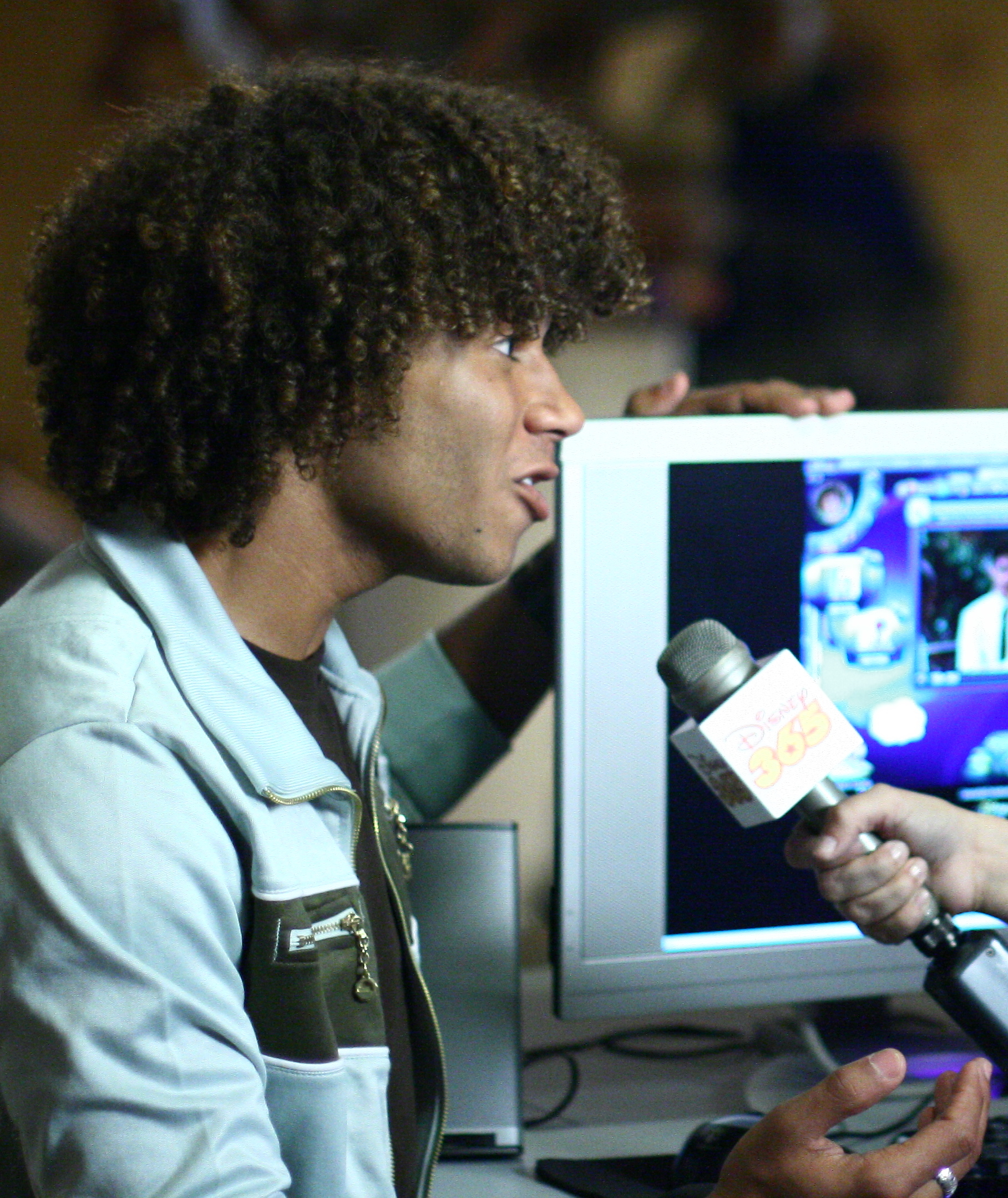 Corbin Bleu in May, 2007.